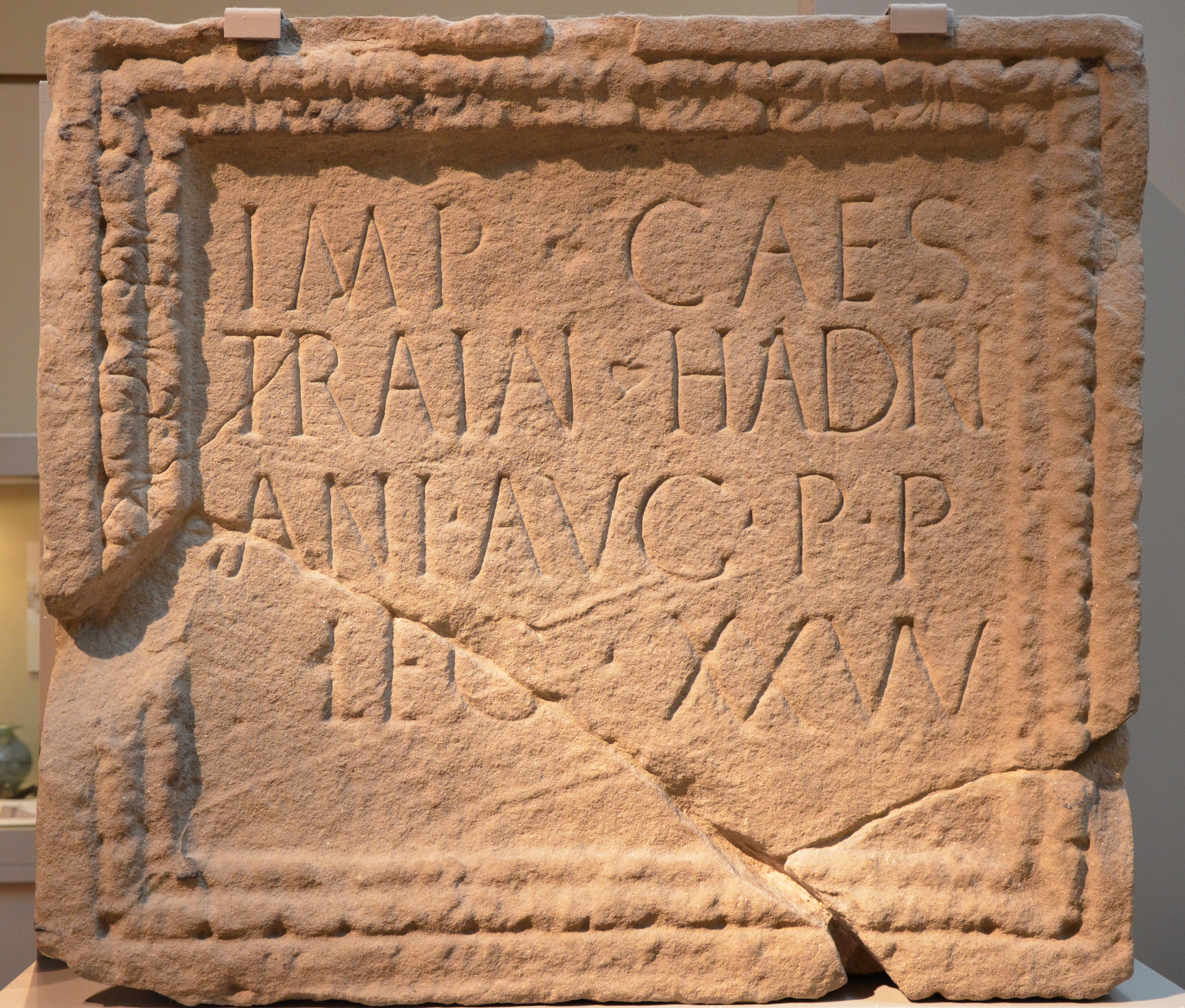 This inscription was found at the fort of Moresby, near the east gate, above which it probably stood. The title "pater patriae" - Father of the Country? that Hadrian took in AD 128 dates the inscription between that year and the end of his reign. The Moresby fort was part of the defensive system that extended Hadrian's Wall down to the west coast of Cumbria. The inscription may be translated: (This work ) of the Emperor Caesar Trajan Hadrian Augustus, father of his country, the Twentieth Legion Valeria Victrix (built).